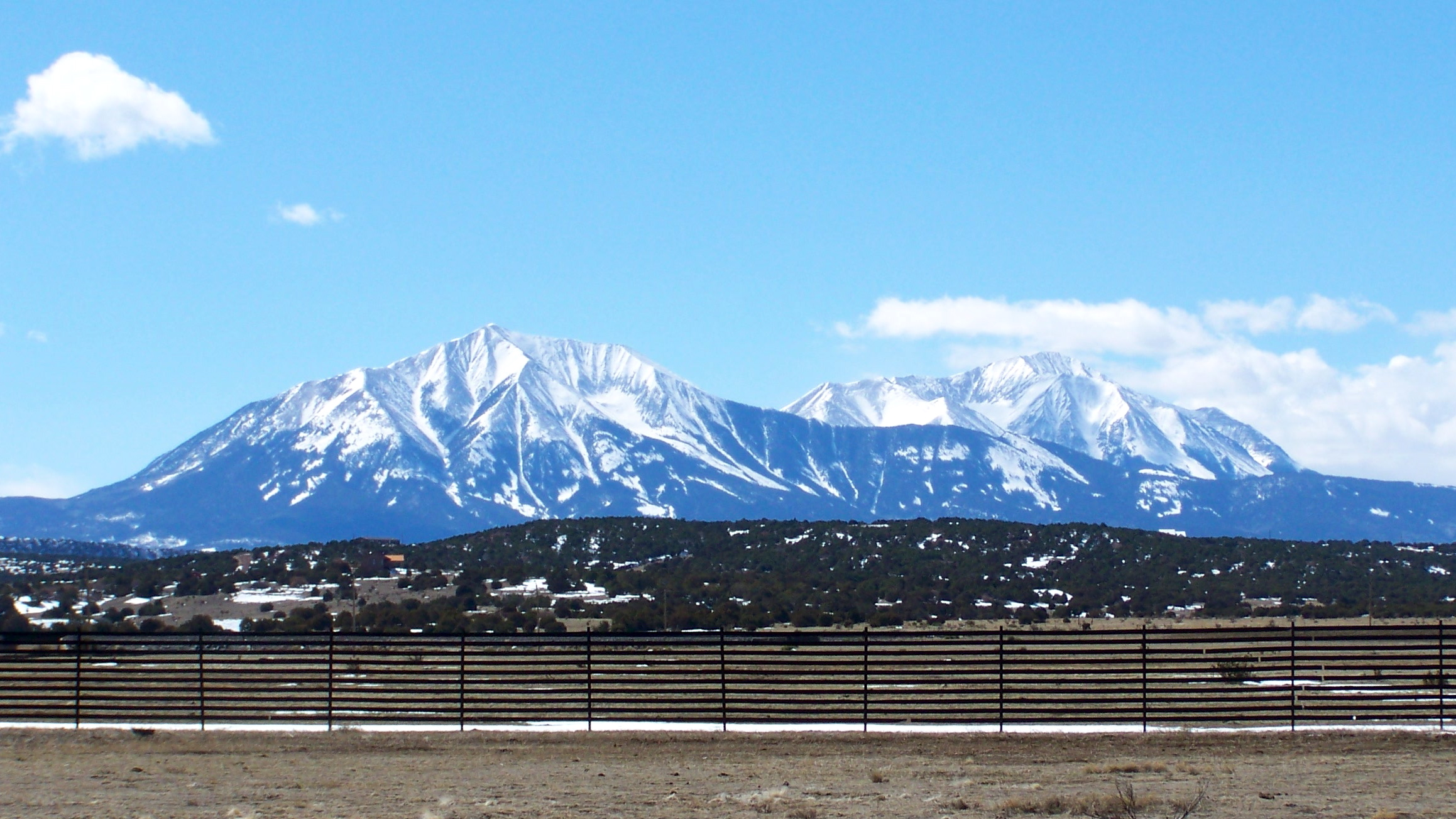 Spanish Peaks as seen from I25, Huerfano county, Colorado